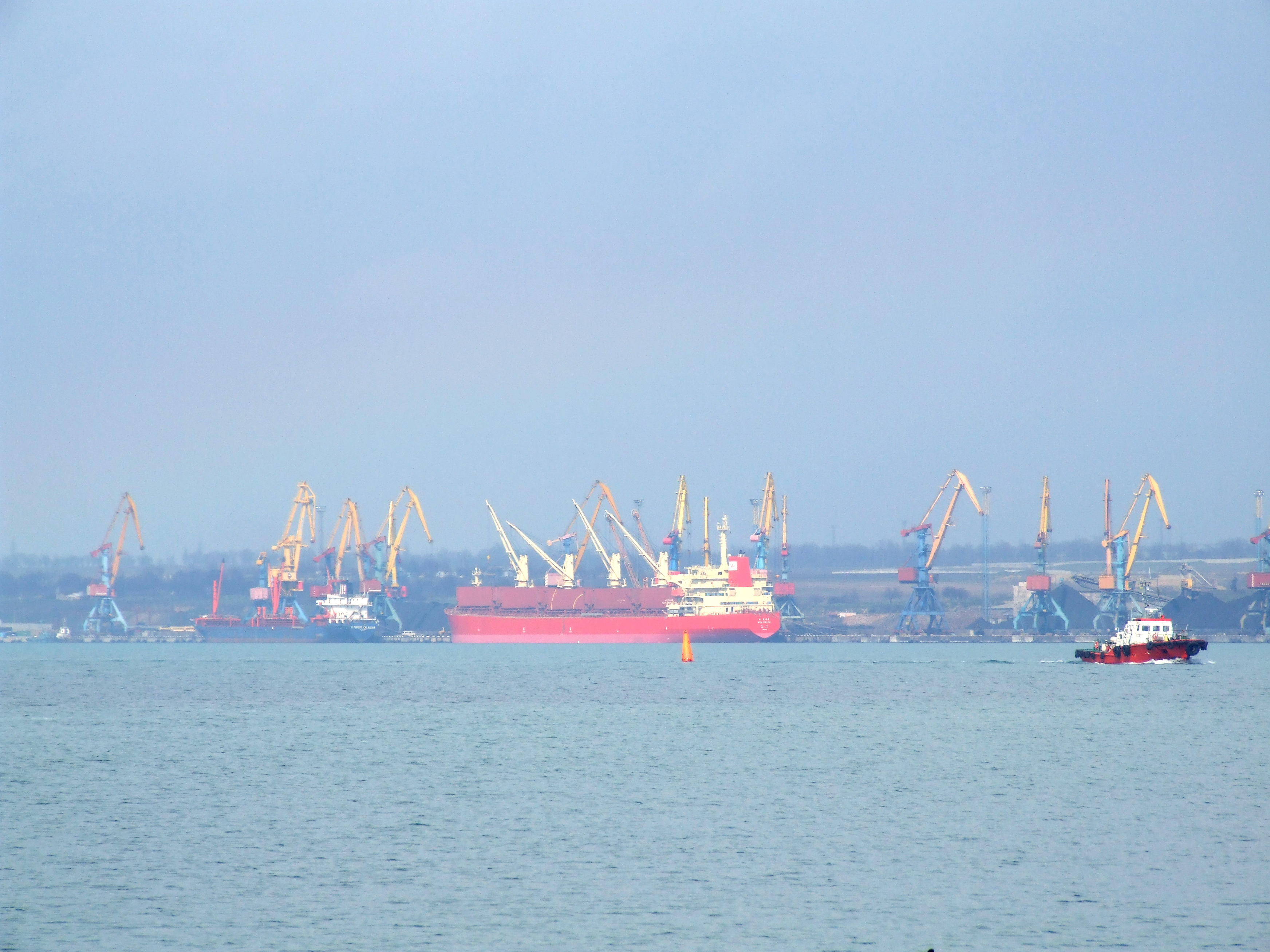 A view of port of Yuzhne, Adzhalykskyi liman, Odessa Oblast, Ukraine